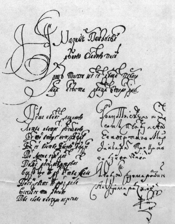 Autograph by Jan Kazimierz Paszkiewicz (d. 1635 or 1636) of his poem “Polska kwitniet łacinoju” (1621)